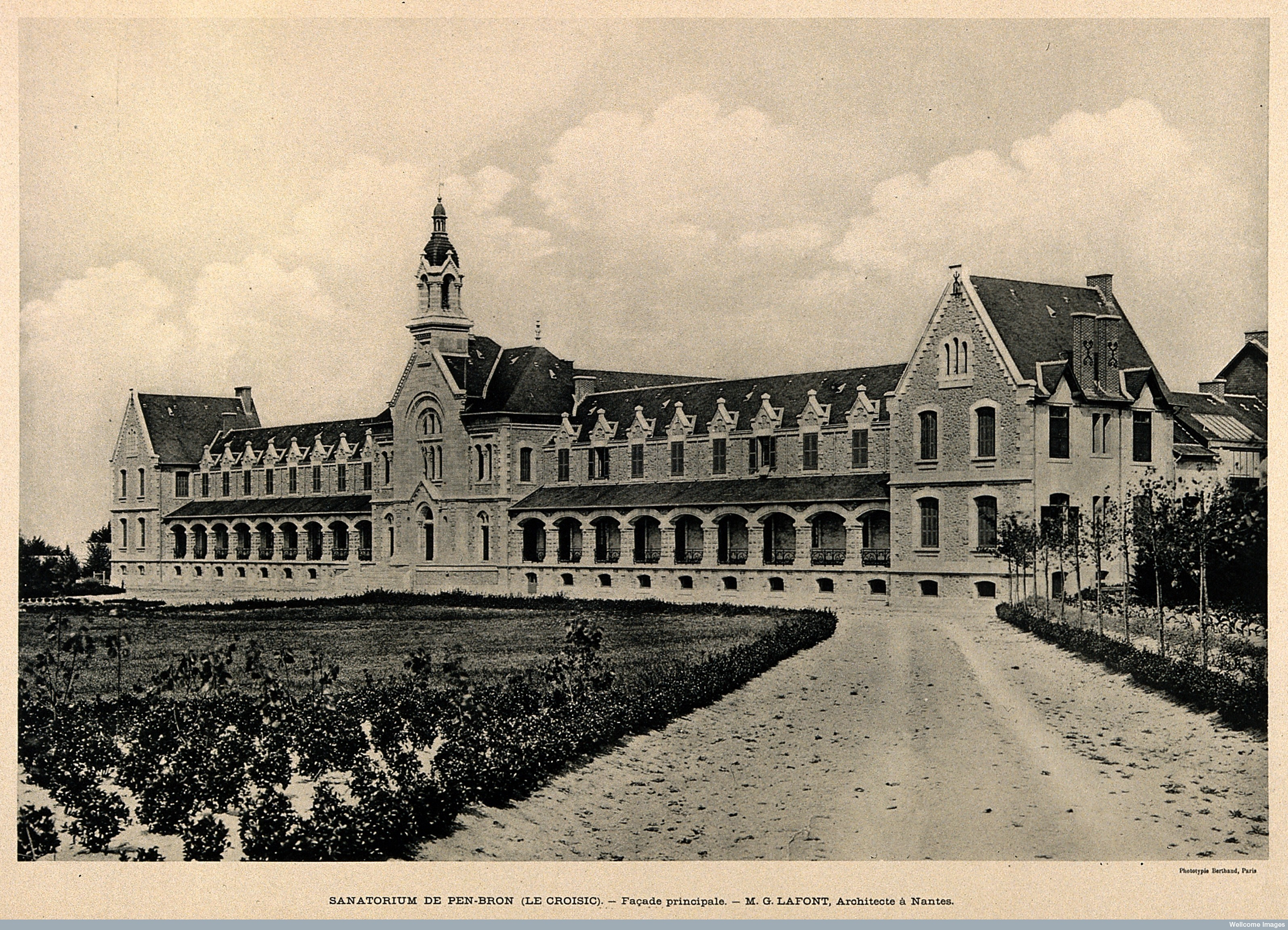 V0014860 Sanatorium de Pen-Bron (Le Croisic), France: façade. Process Credit: Wellcome Library, London. Wellcome Images Sanatorium de Pen-Bron (Le Croisic), France: façade. Process print, 1913. 1913 after: Gaston Lefol and M.G. LafontPublished: 1913] Copyrighted work available under Creative Commons Attribution only licence CC BY 4.0